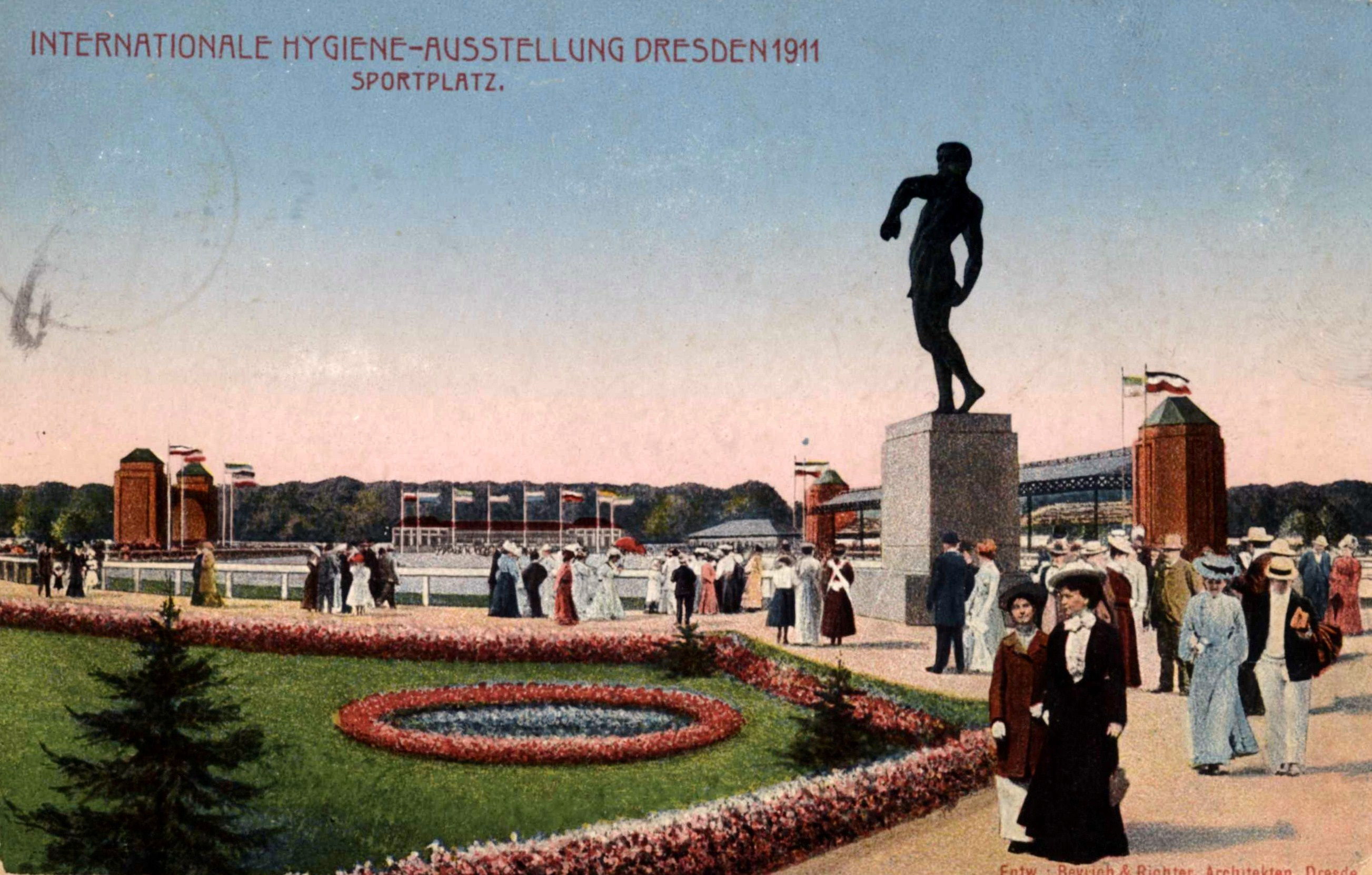 International Hygiene Exhibition Dresden 1911 (sports ground)